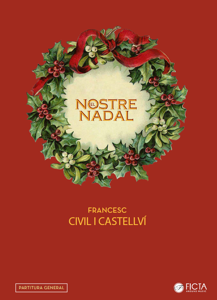 Cover of the score for choir and piano of the 1956 version of El Nadal - 15 traditional Catalan carvings by Francesc Civil.